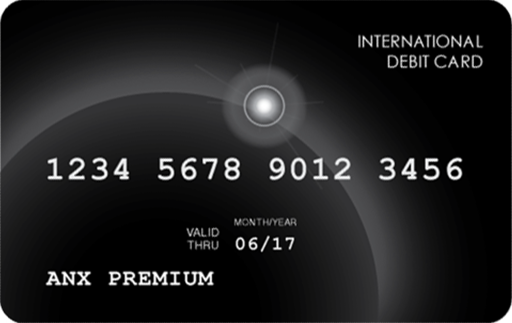 ANX INTERNATIONAL - PREMIUM DEBIT CARD